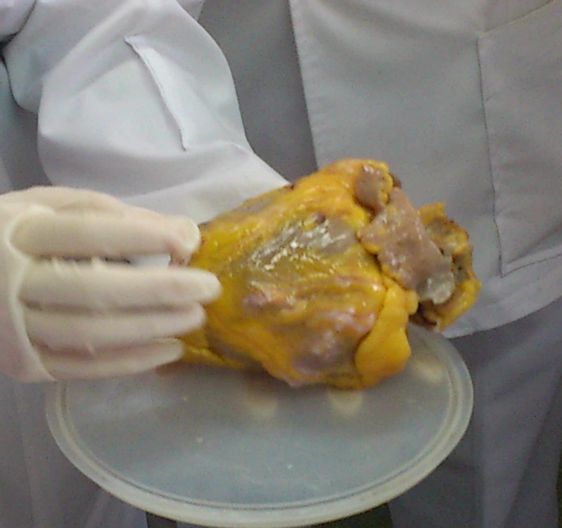 Formalin fixed heart with cardiomegaly. 2012 National Institute of Cardiology, Mexico